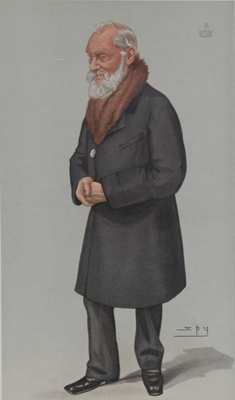 Caricature of Lord Kelvin. Caption read "Natural Philosophy".